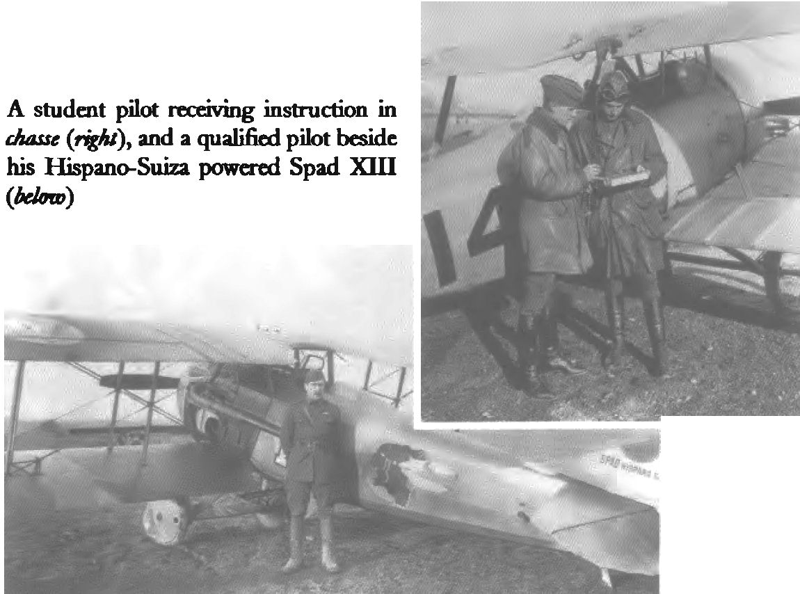 Issoudun Airfield - Trainers2